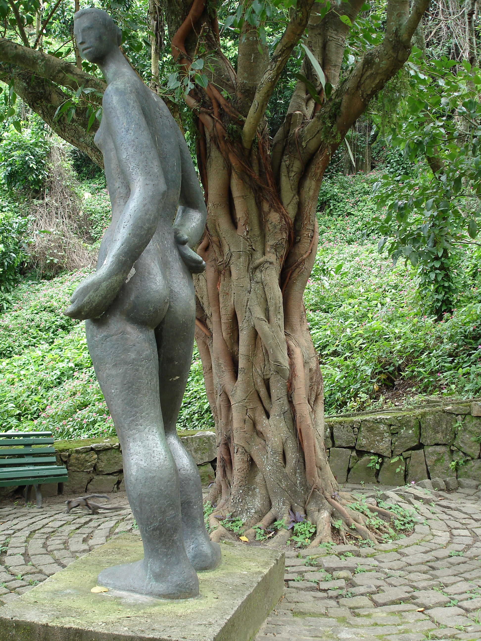 Sculpture at the Catacumba Park, Rio de Janeiro, Brazil